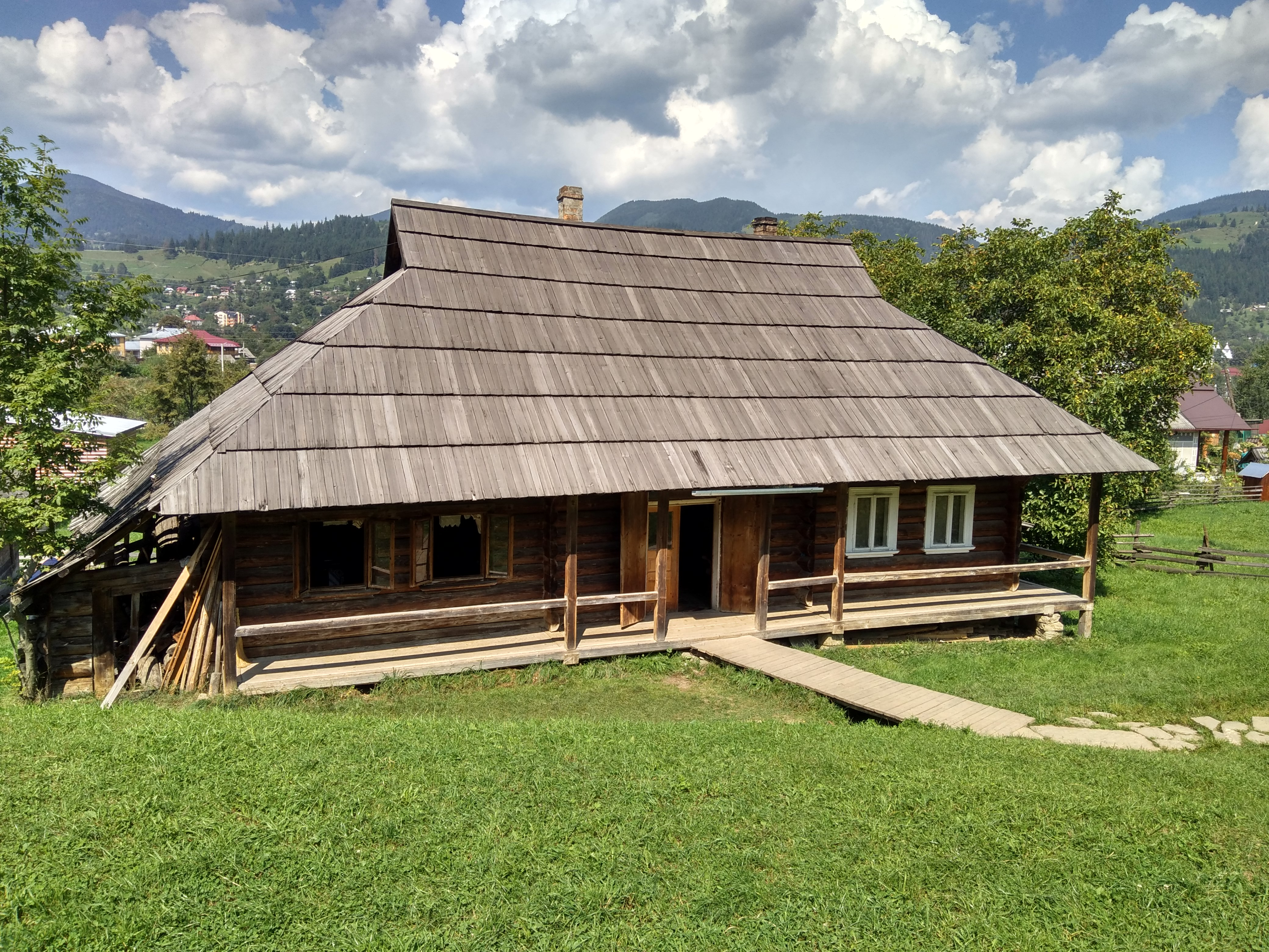 Verkhovyna (Ivano-Frankivsk Oblast, Ukraine), Film "Tini Zabutych Predkiv" Muzeum